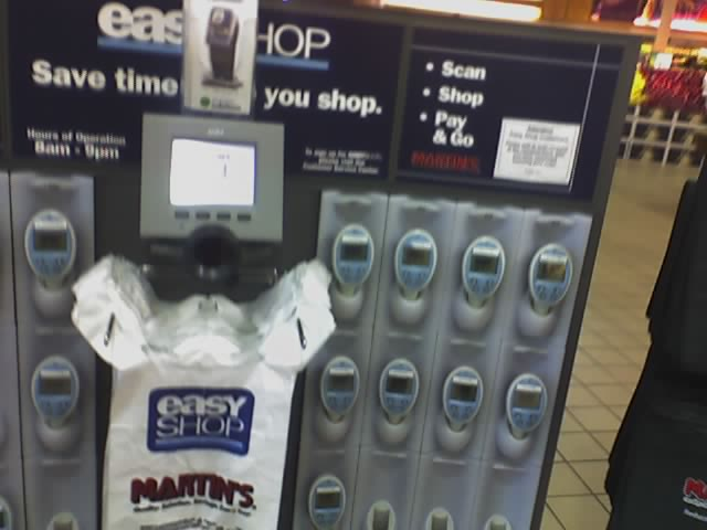 Photo of general area